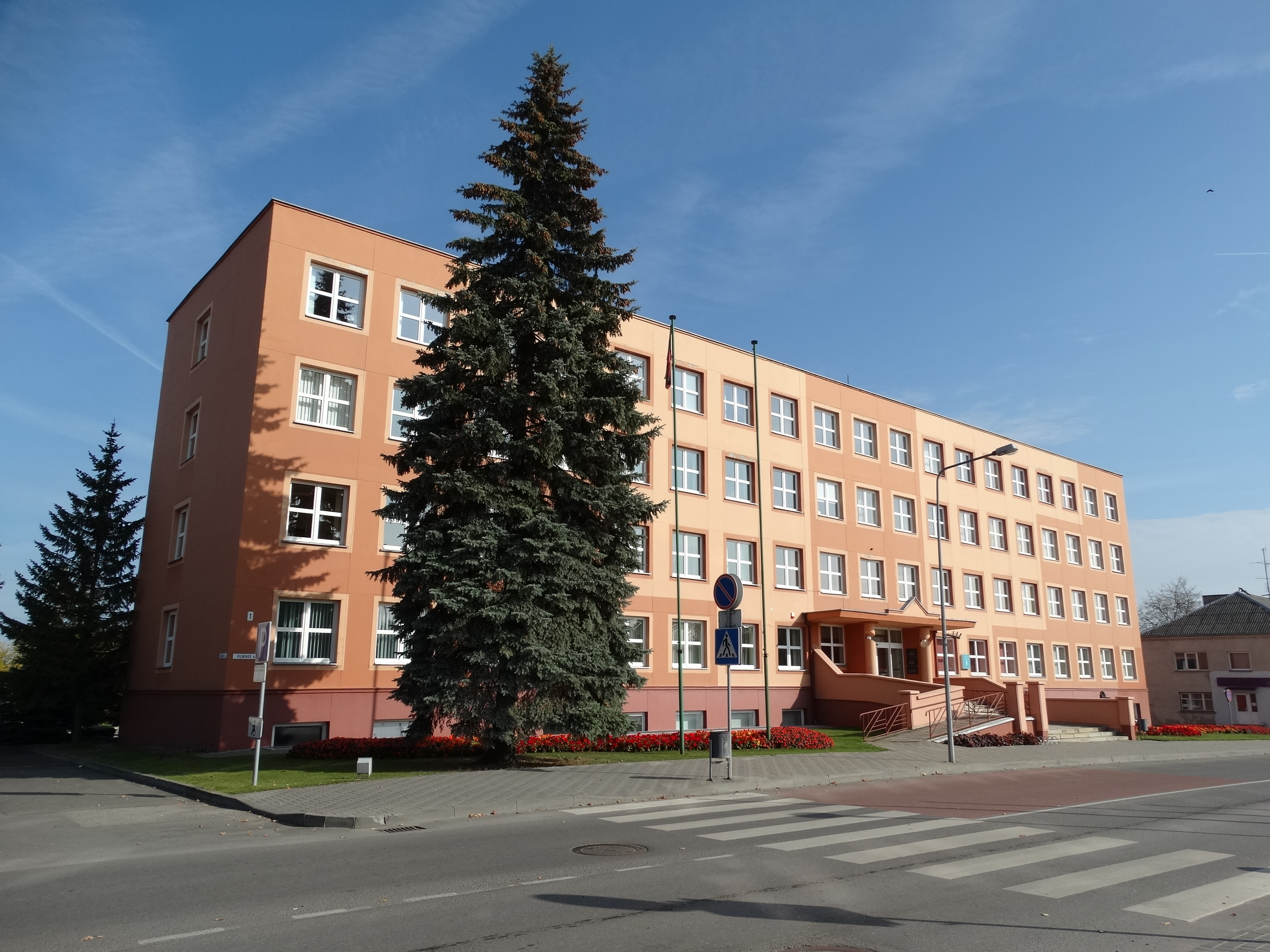 Municipality, Lazdijai, Lithuania